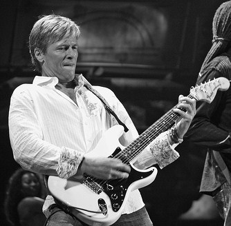 Jack Wagner live Mohegan Sun, CT 2009 Other information this was taken at a free concert in 2009 by a fan